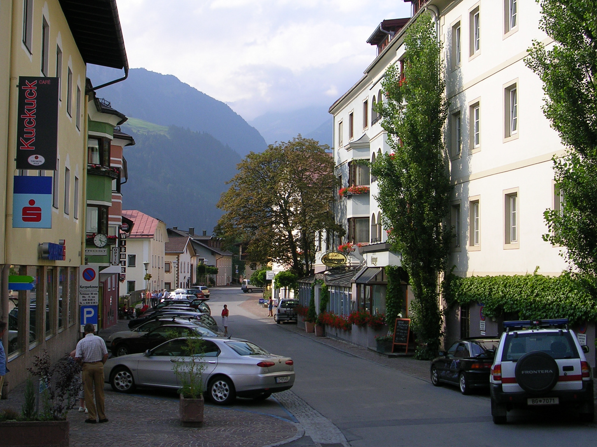 Center of Matrei in Osttirol